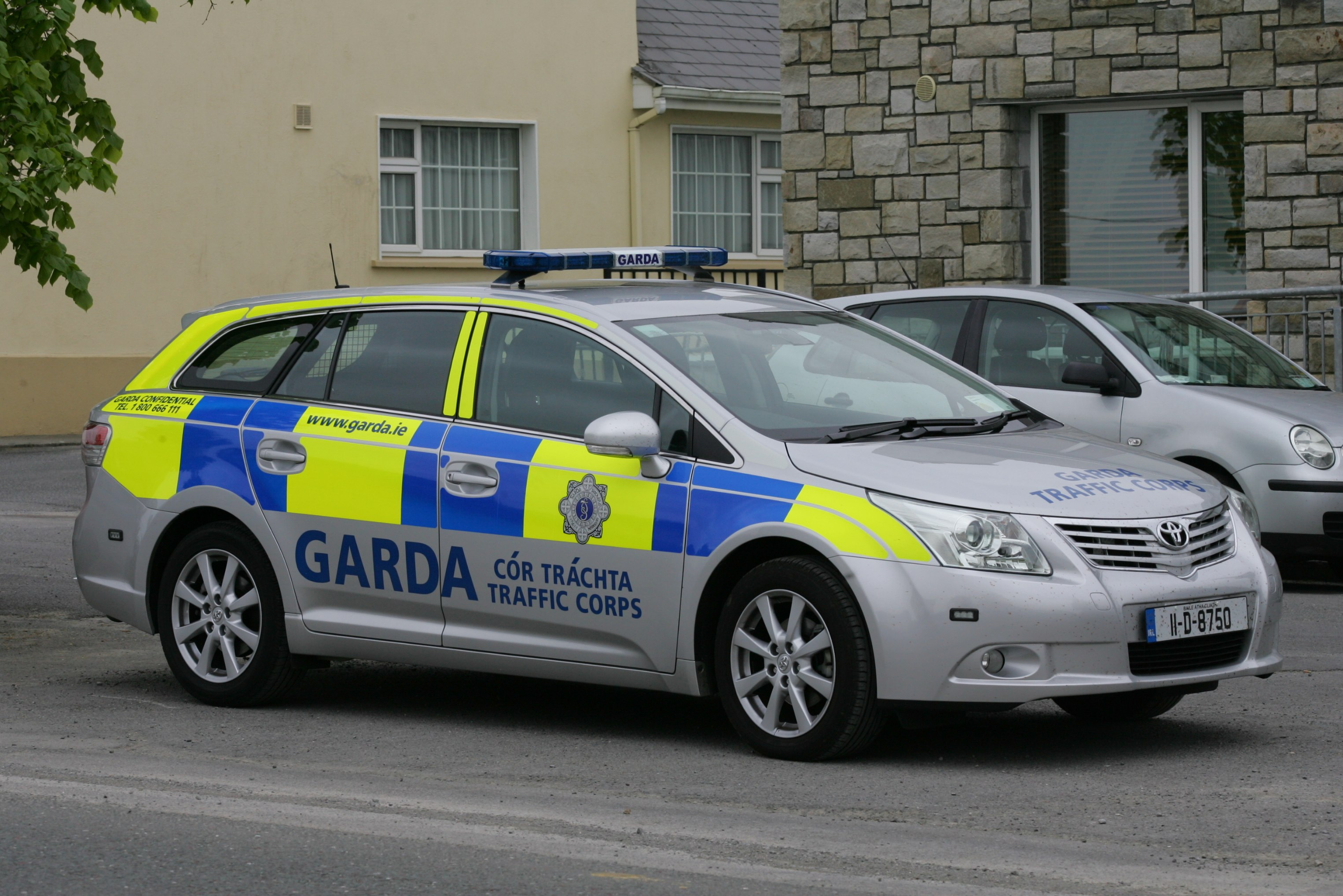 Garda Traffic Corps Silver Toyota Avenis D4D Estate 11D8750